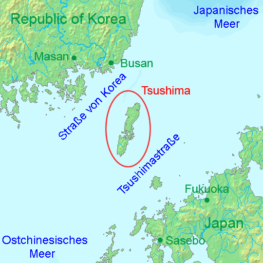 Location of Tsushima island Beschriftung in Deutsch, Benamung der Straße nach Korea_Strait#Naming_of_the_Strait (Japanese names), da japanische Insel.